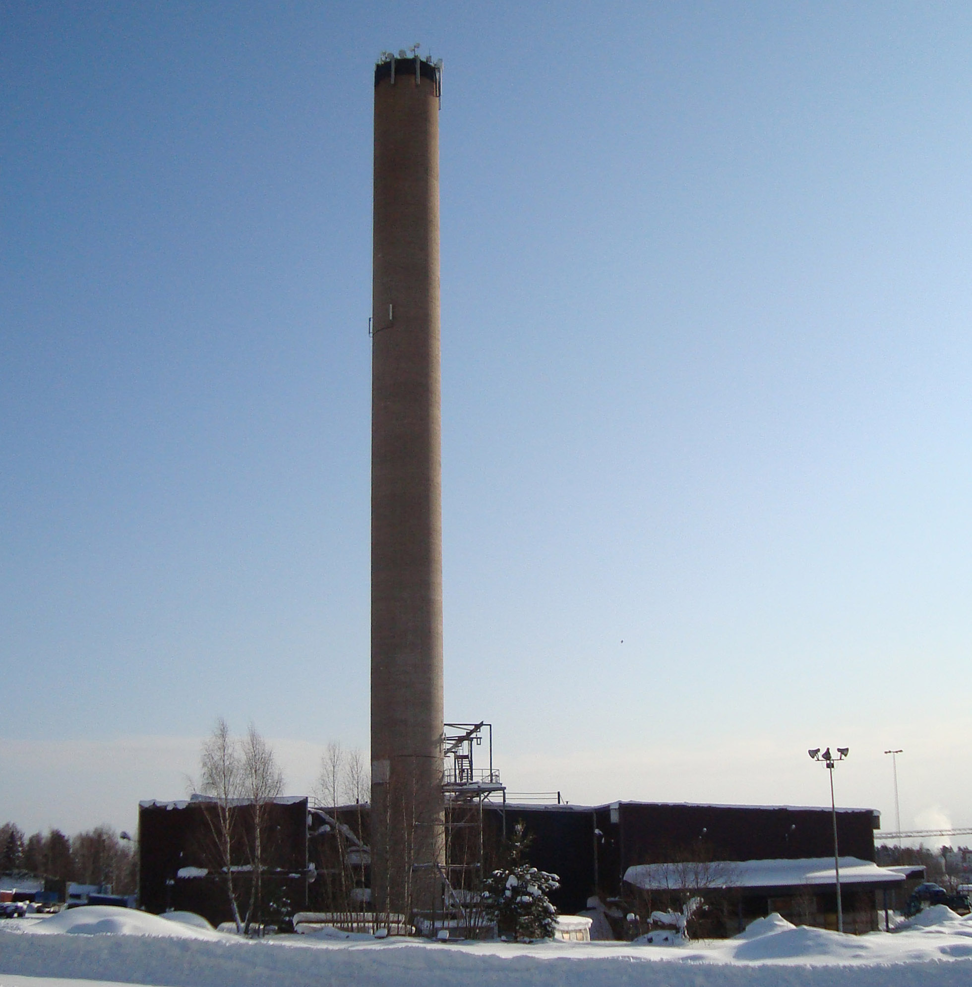 Former aluminium works in Månsbo, Avesta, Sweden